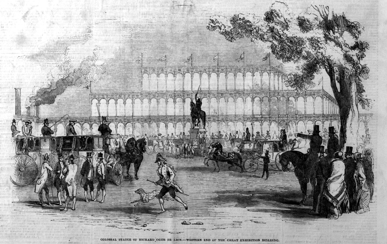 Colossal statue of Richard Coeur de Lion - western end of the Great Exhibition Building